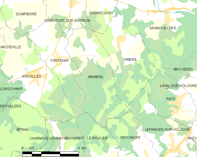 Map of French municipality Méménil